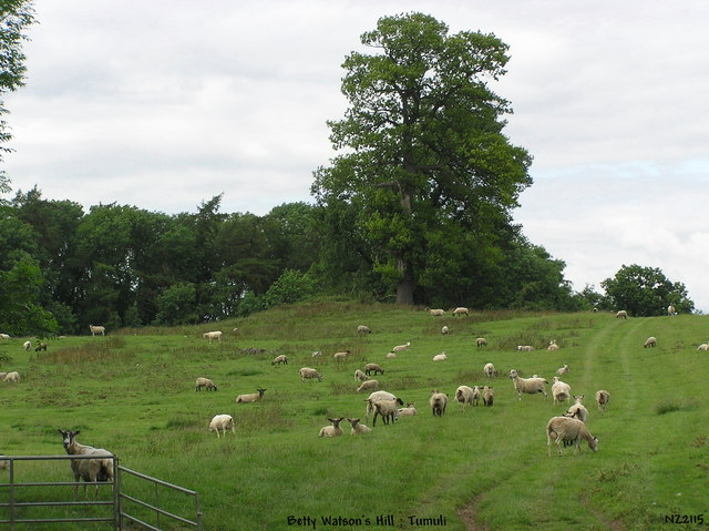 Source description says: "Betty Watson's Hill : Tumulus. One of three Tumuli in the area."